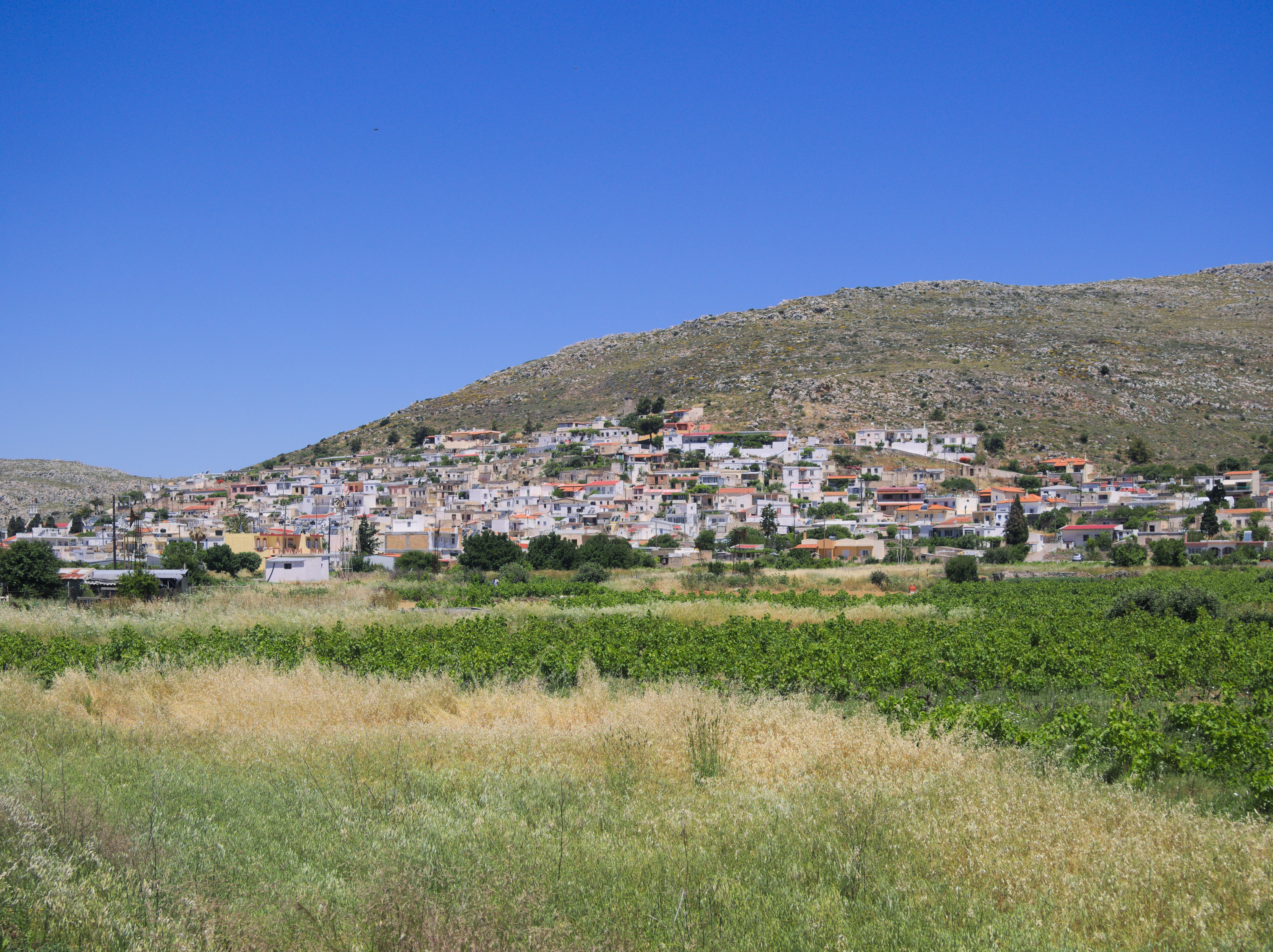 View of Ziros, as seen from its plateau, at the south.